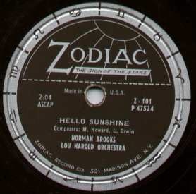 American Zodiac 78 label; for Zodiac Records article